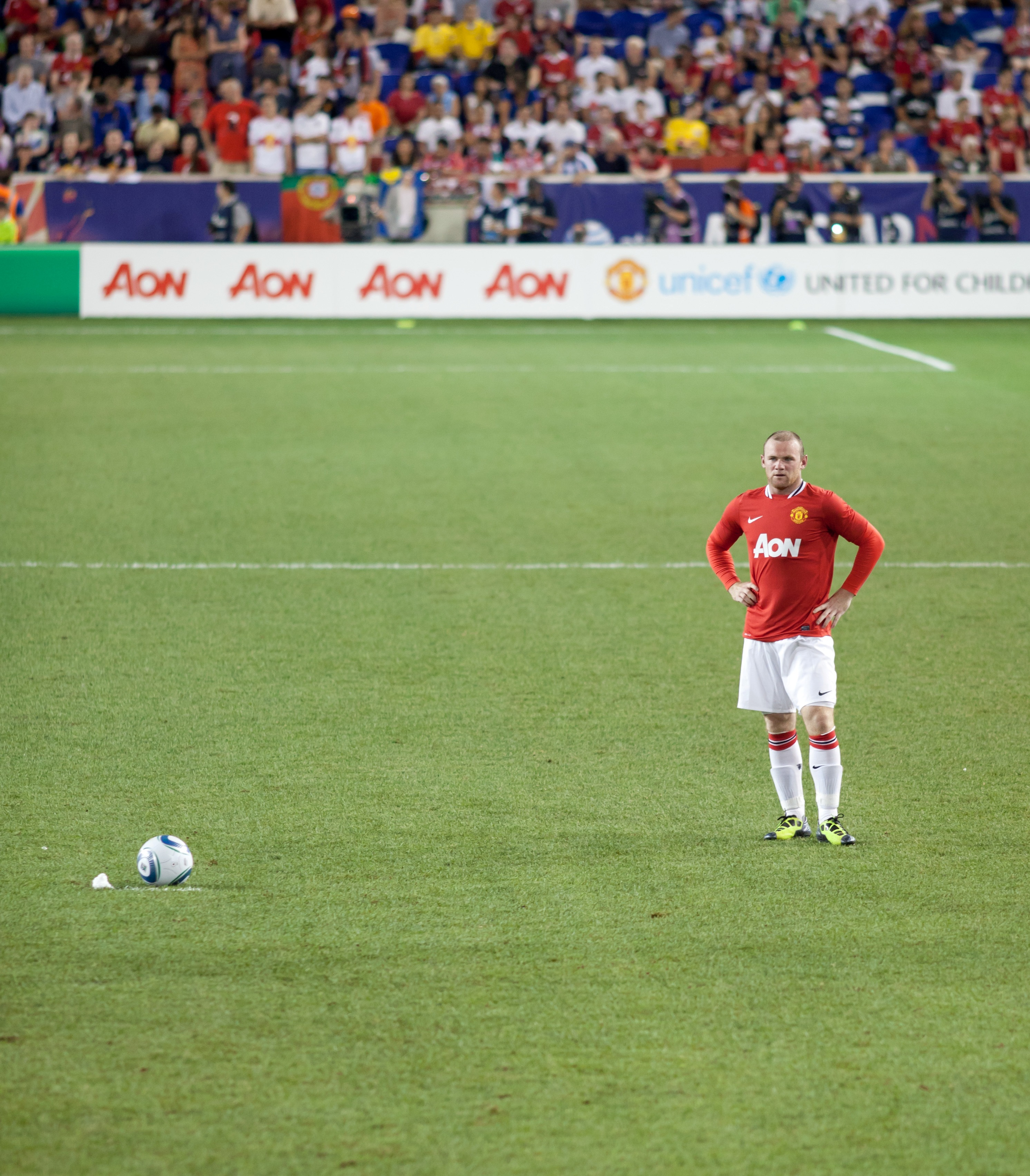 Wayne Rooney about to take a free kick vs MLS All Stars in 2011